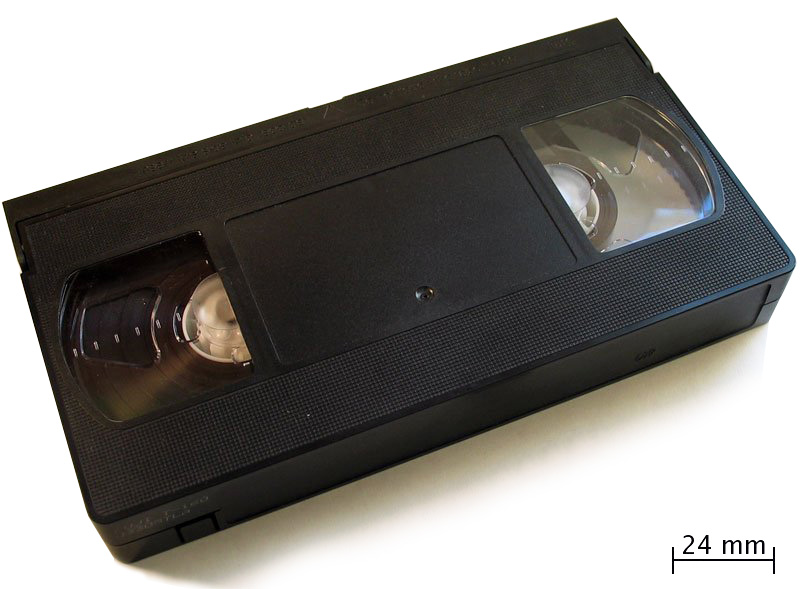 Photograph of top of a VHS cassette with scale. From : Wikipedia EN